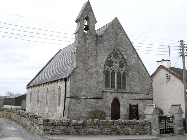 St Mark's Church of Ireland, Augher It is in the centre of the village